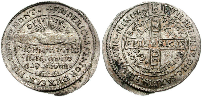 GERMANY, Sachsen-Neu-Weimar. Wilhelm. 1640-1662. AR Groschen (23mm, 2.20 g, 12h). On the death of his son, Prince Friedrich. Dated 1656. Cloud before streaming sun, dedication in script below / Cross inscribed FRIDERICHS. Koppe 334; Merseburger 3908. EF.